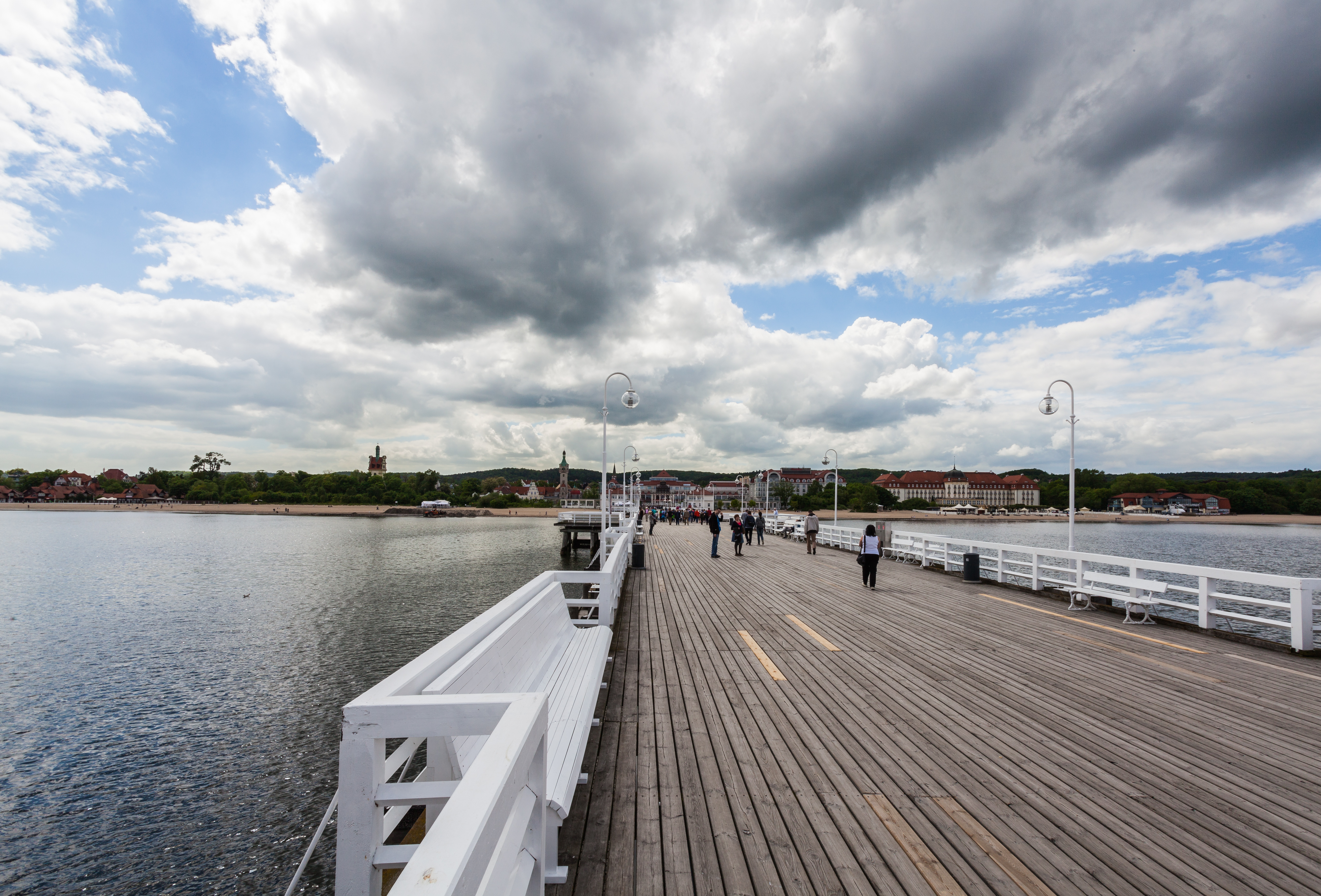 Promenade pier of Sopot, Poland